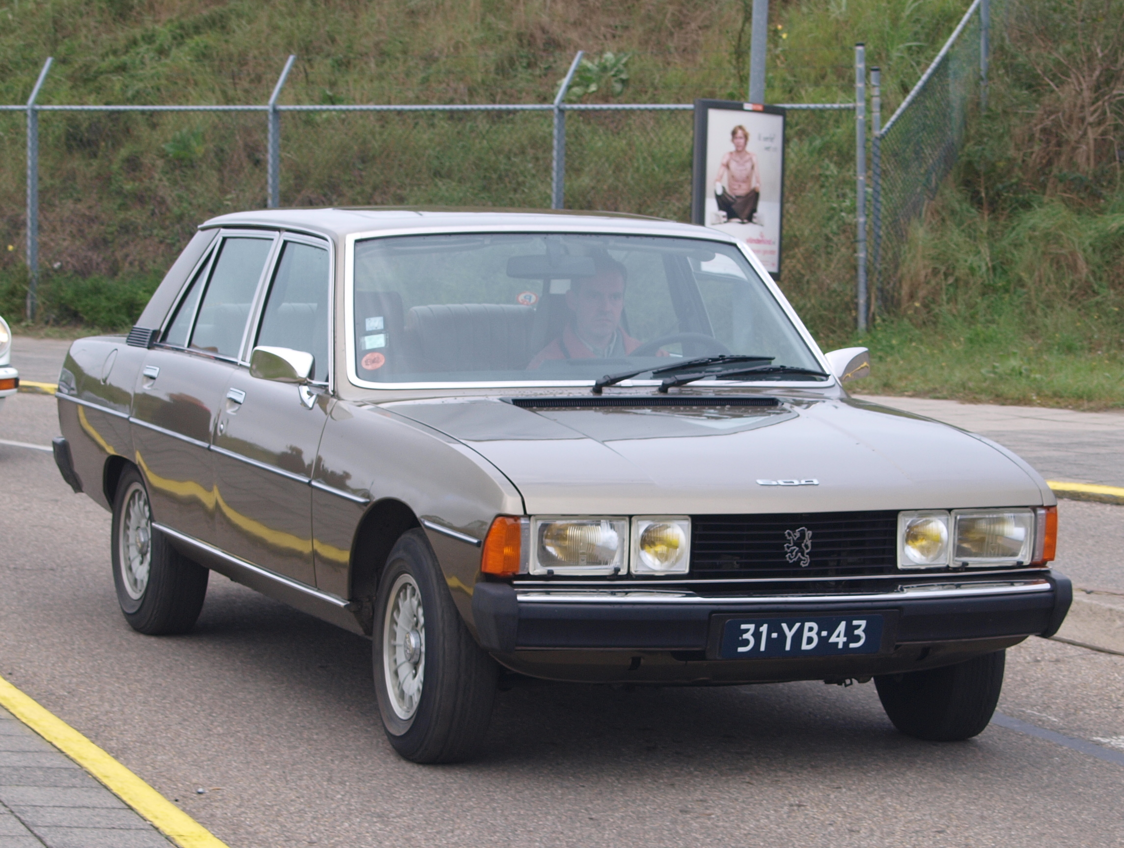 Photographed at the Nationaal Oldtimer Festival Zandvoort 2010, The Netherlands.